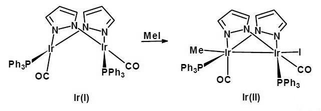 Addició oxidant a 2 centres